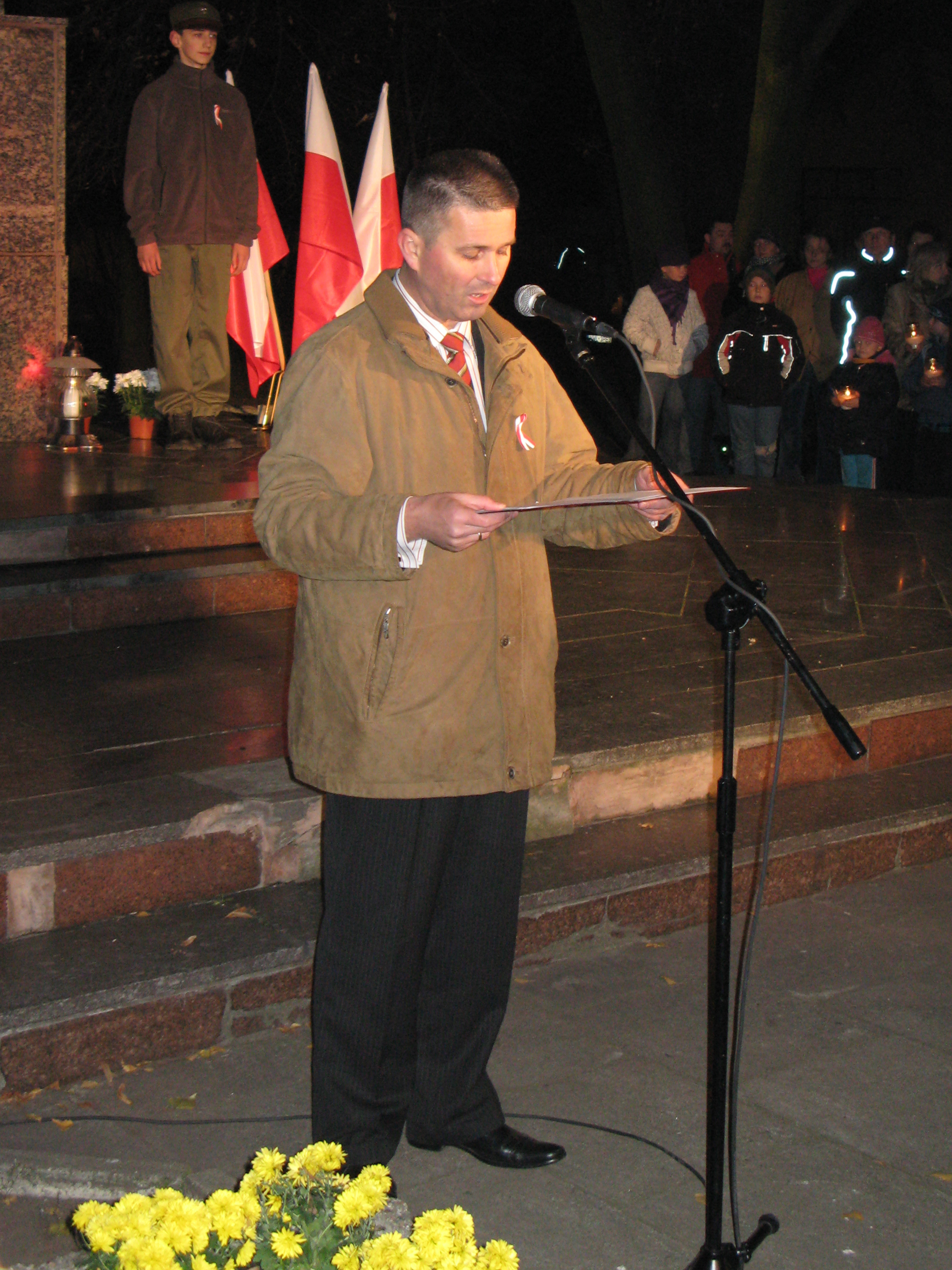 Janusz Werczyński